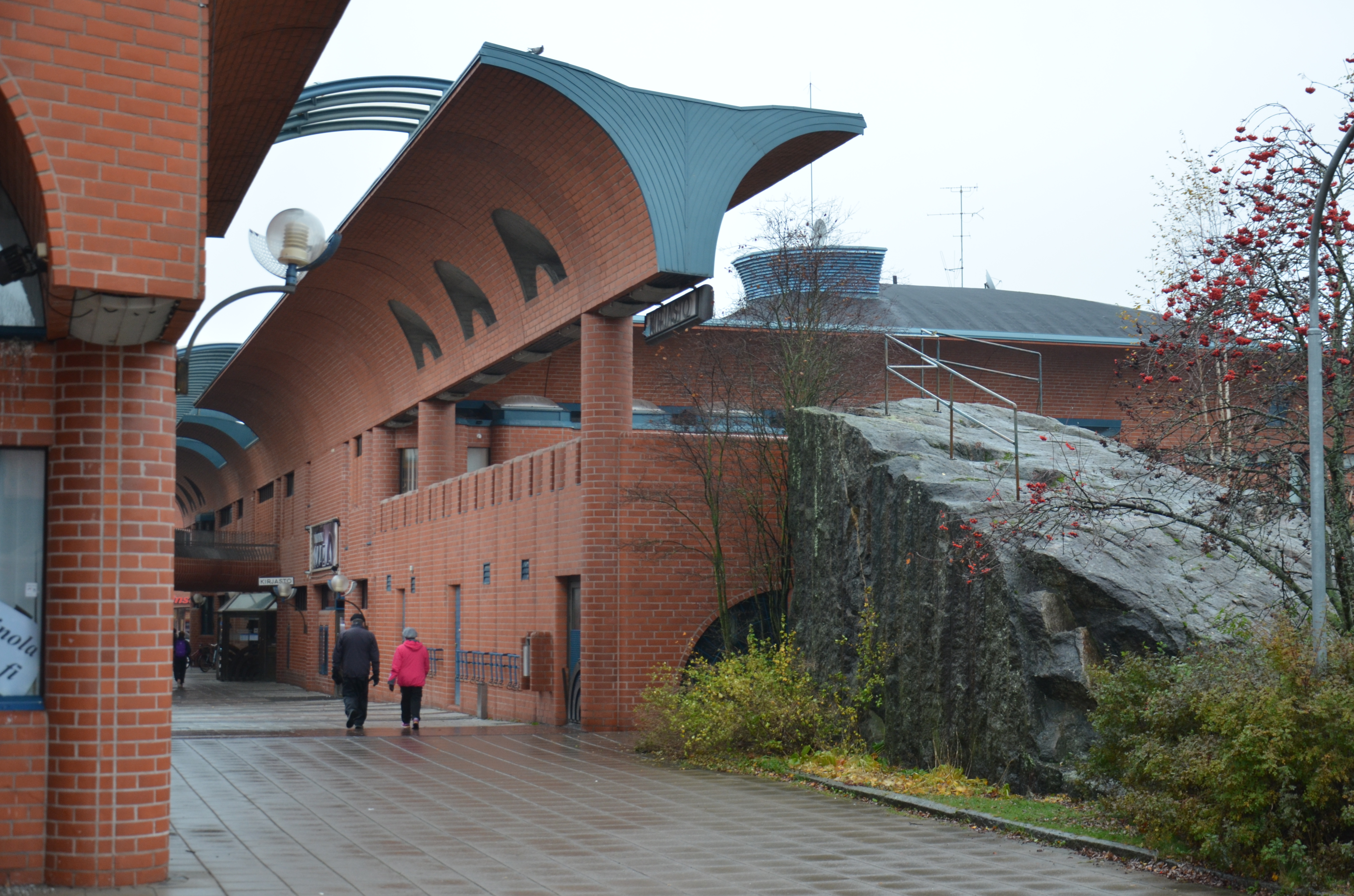 Hervanta centre, Tampere